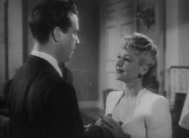 Screenshot of Dick Powell and Claire Trevor from the film Murder, My Sweet.